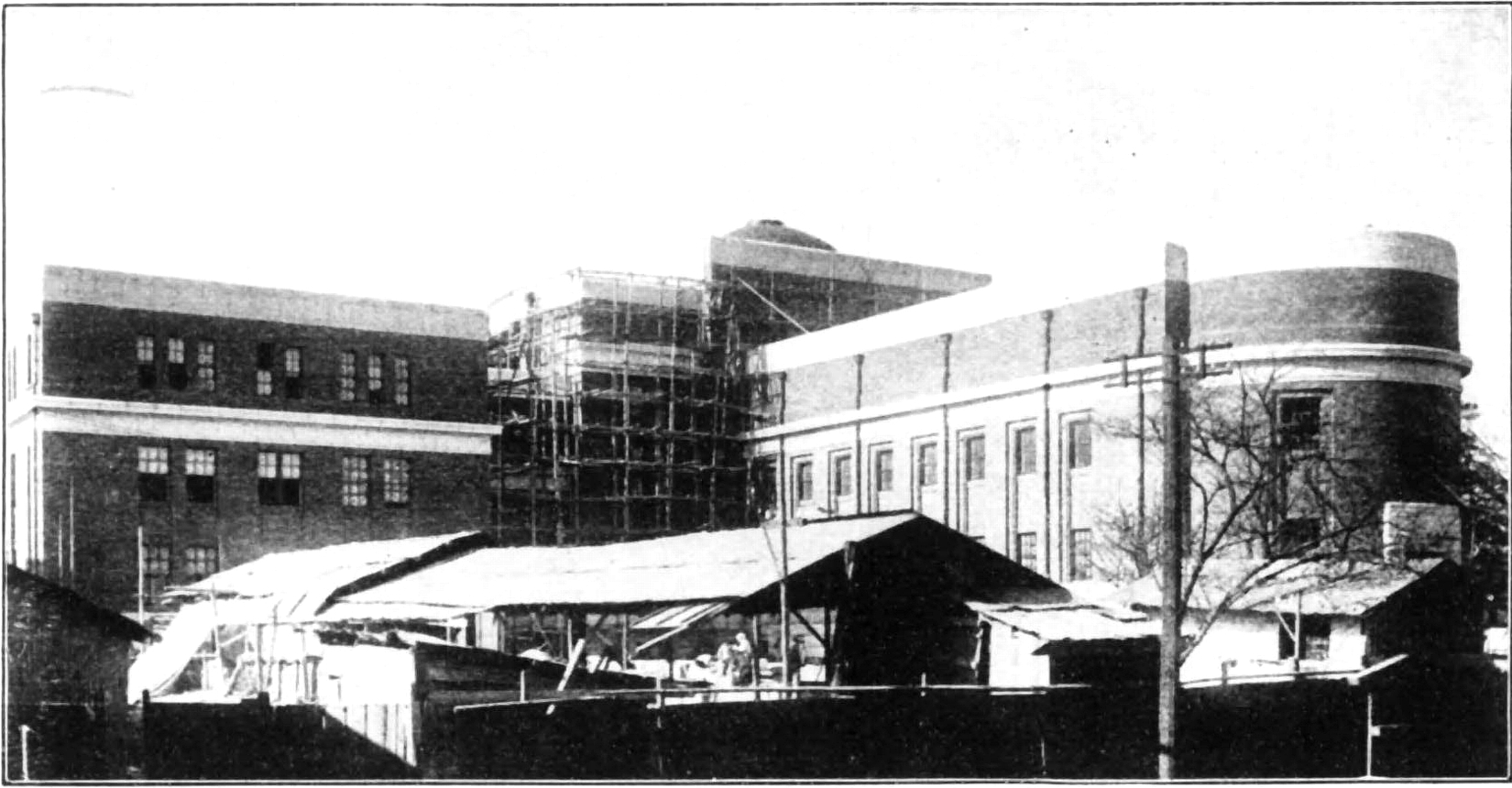 Tokyo museum (present-day "National Museum of Nature and Science") under construction in February, 1930.